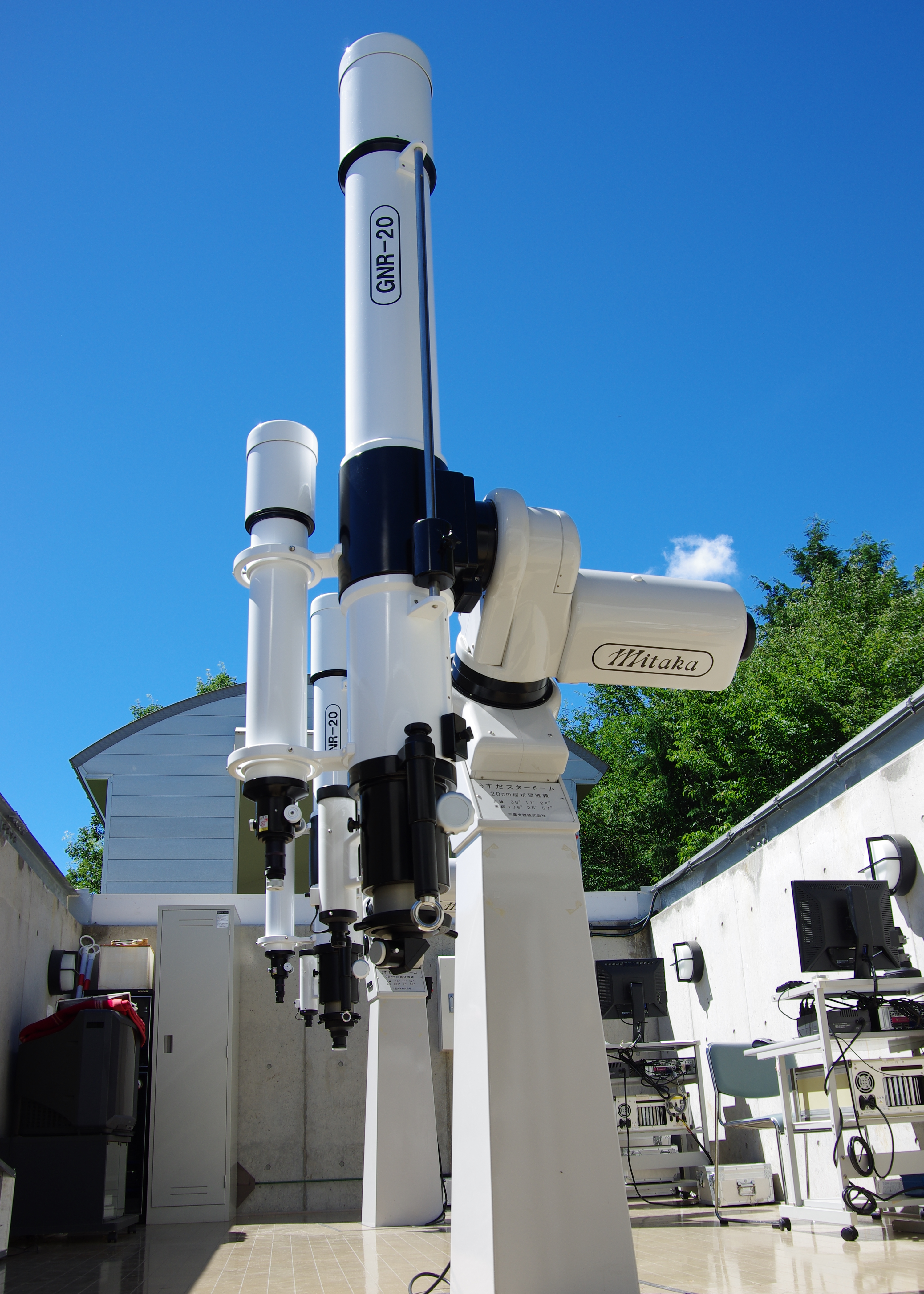 20cm refracting telescopes of Usuda Star Dome